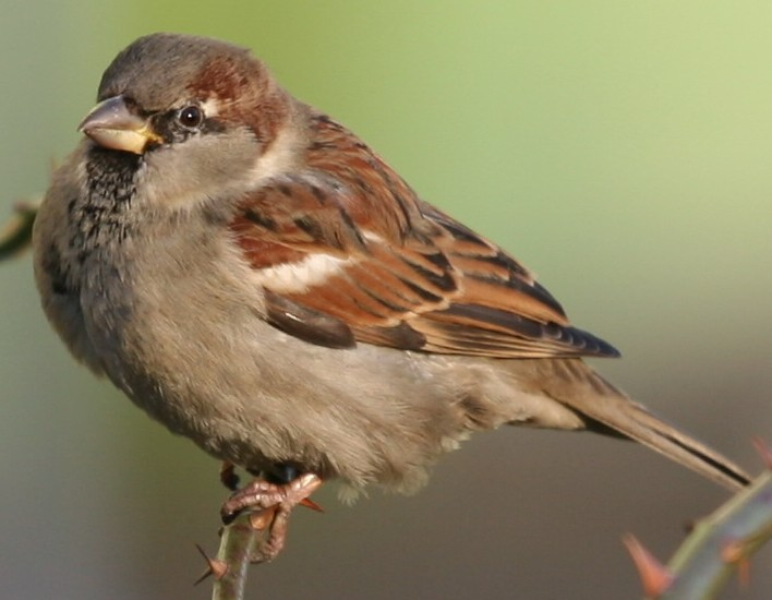 Passer domesticus on the rose.